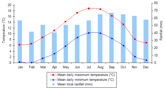 Graph to show the climate of Edinburgh, Scotland